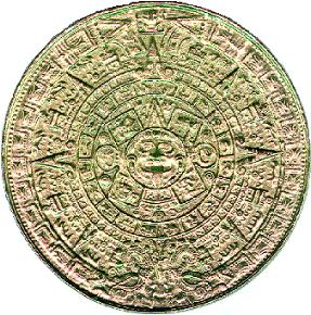 Source: Scan of gold pendant replica of aztec calendar stone by User:Isis. nah:Imagen:Cuauhxicalli.jpg